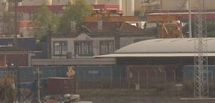 Leixões Train Station, in the Leixões Seaport, in Portugal.